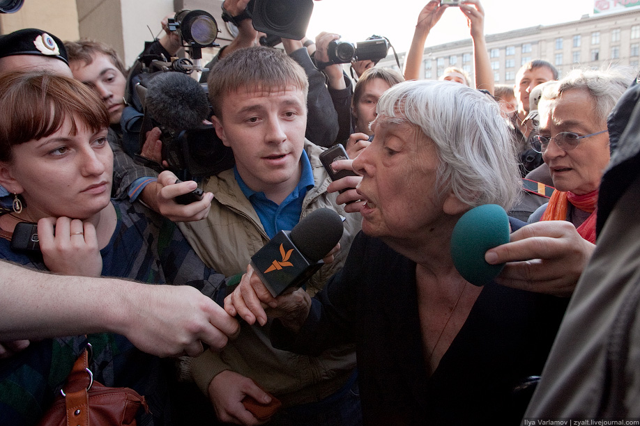 Lyudmila Alexeyeva. Protest action in defense of Article 31 (Freedom of assembly) of the Russian Constitution. Moscow, August 31, 2009